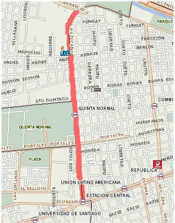 Map of Avenida Matucana, Santiago, Chile